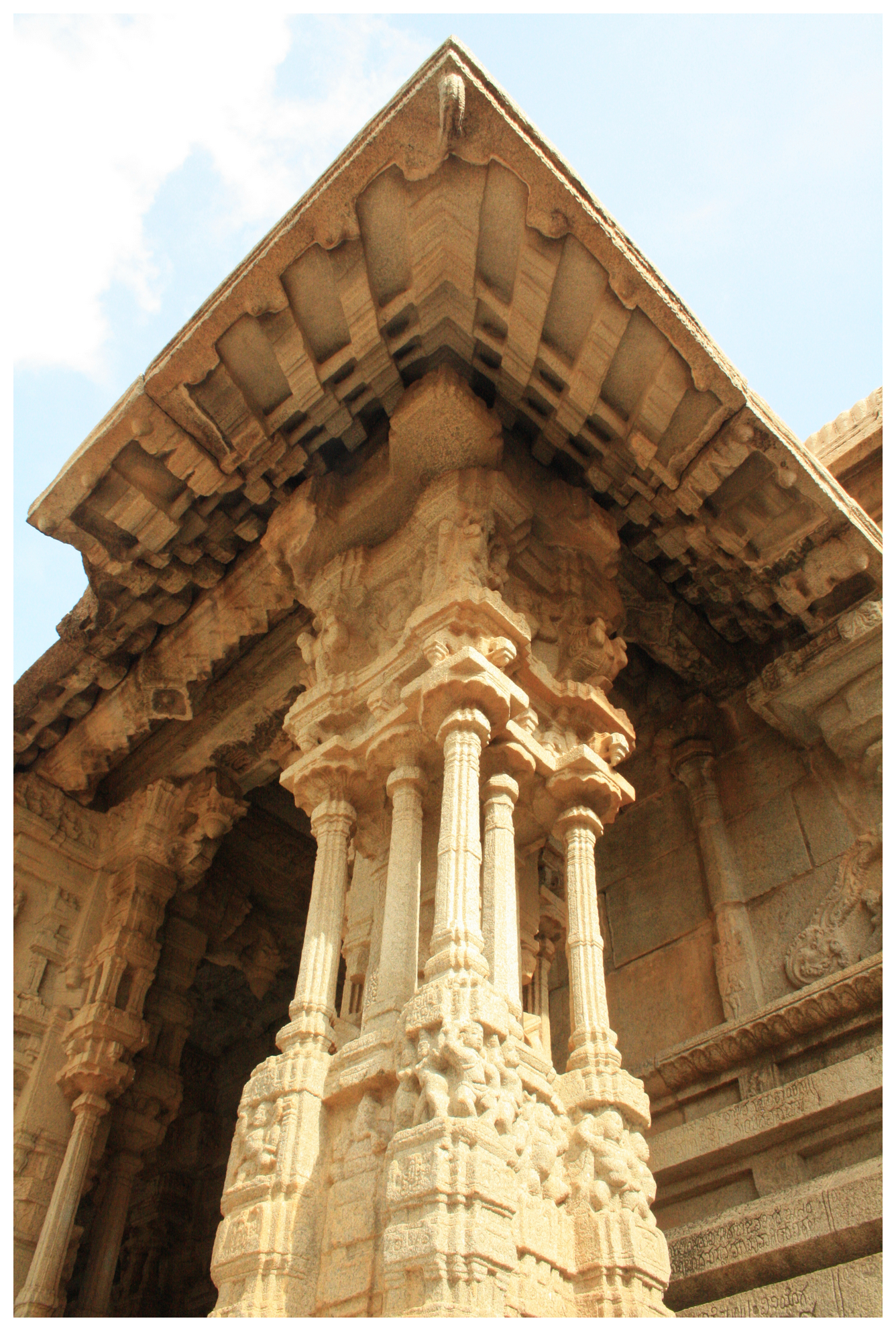 Inscribed Vishnu Temple near Vitthala Temple